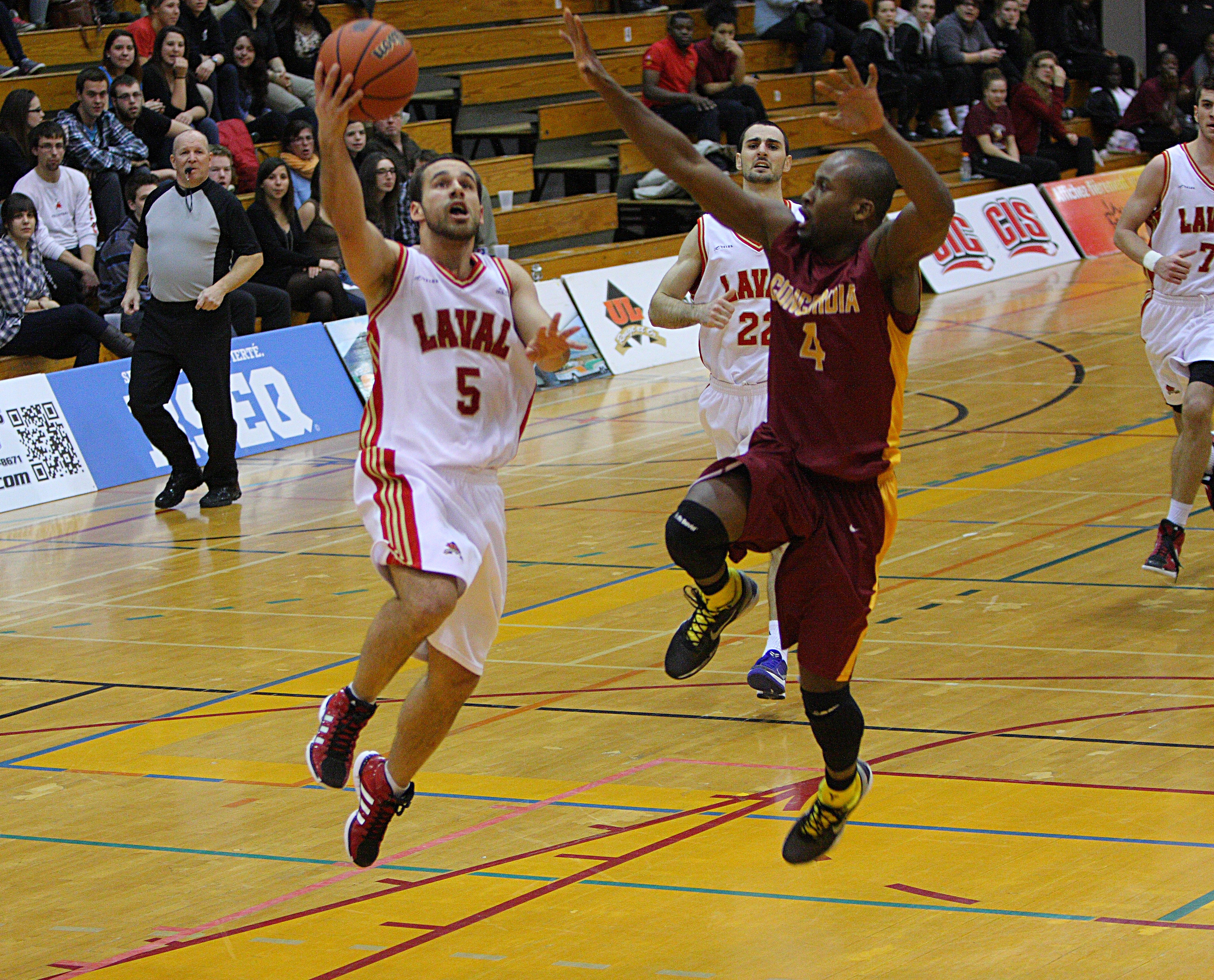 Layup of Xavier Baribeau (5), Laval Rouge et Or guard for the basketball team, Laval University Sports and Physical Education Pavilion. On the right, Decee Krah (4) of Concordia Stingers.